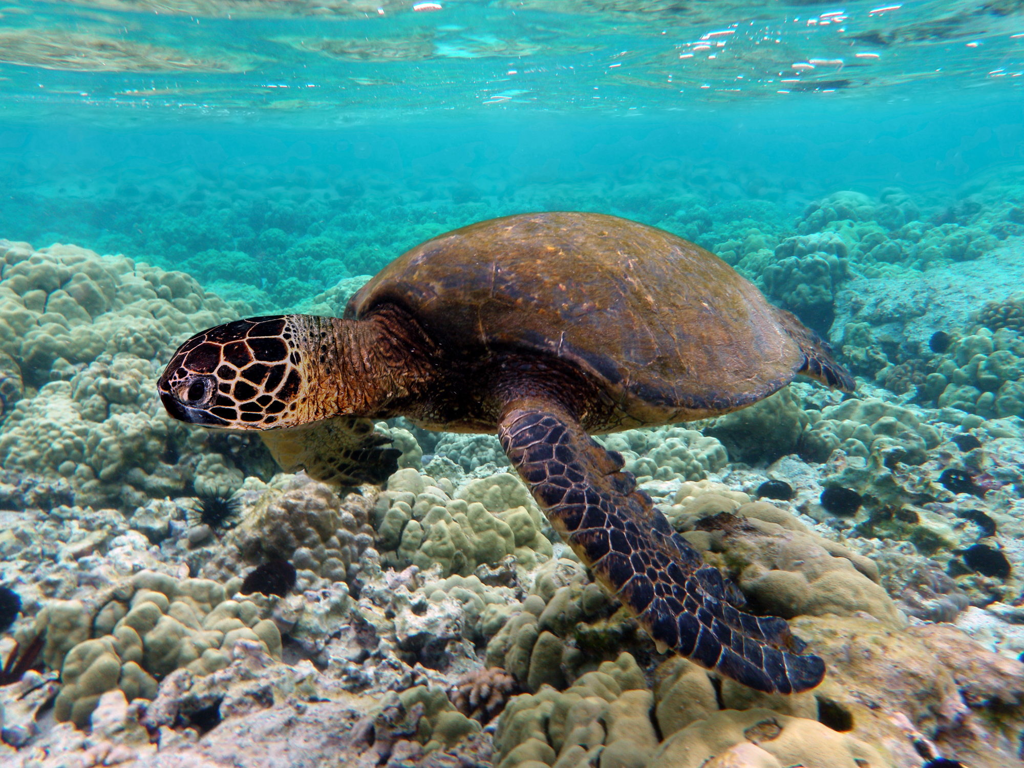 Green turtle swimming over coral reefs in Kona